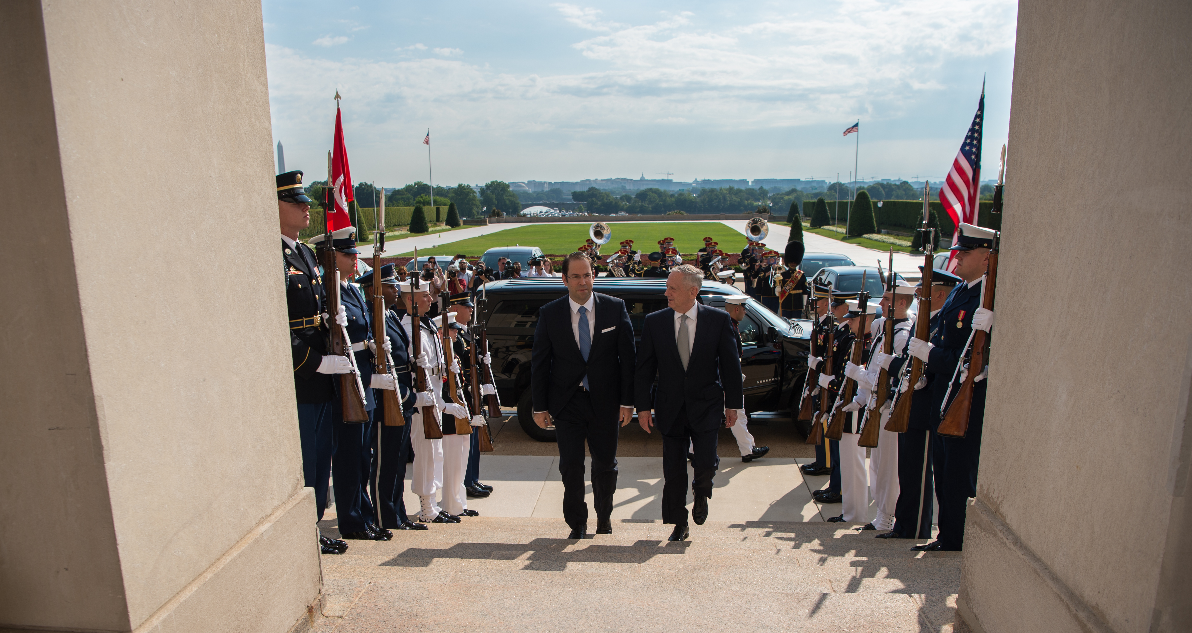 Defense Secretary Jim Mattis walks with the Prime Minister of Tunisia Youssef Chahed before a meeting at the Pentagon in Washington, D.C., June 10, 2017. (DOD photo by U.S. Army Sgt. Amber I. Smith)